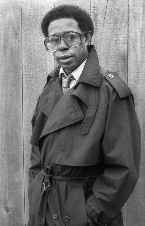 Louis Hayes at Bach Dancing & Dynamite Society, Half Moon Bay CA 5/18/86. Photo: Brian McMillen /